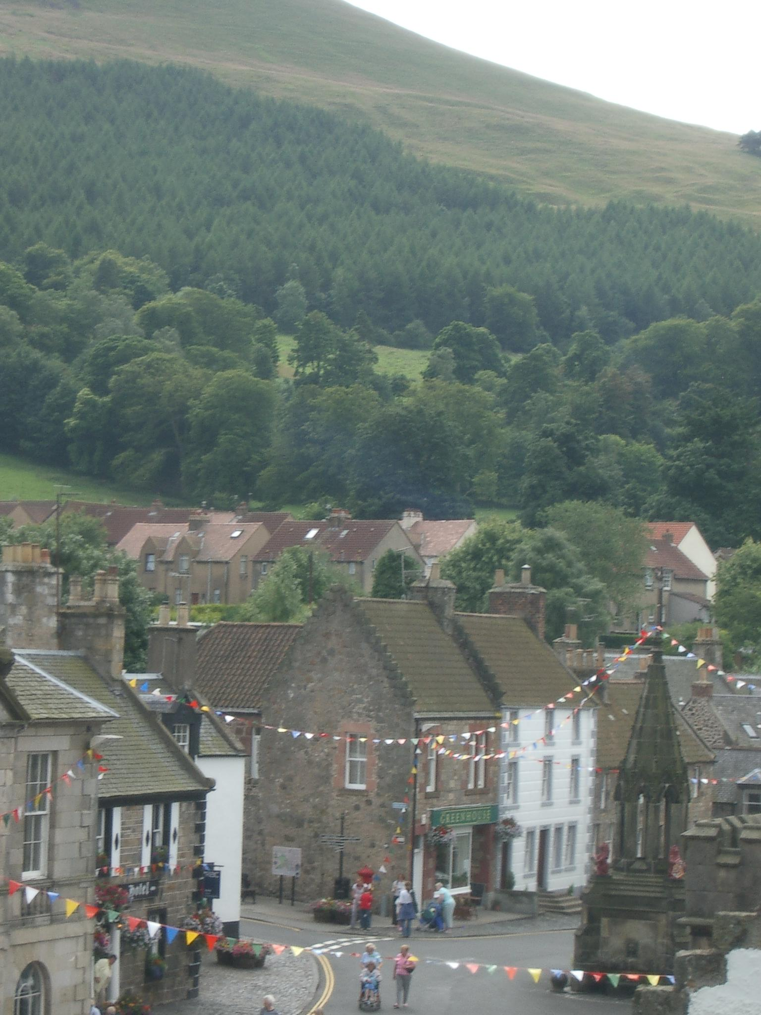 photo of Falkland submitted by author